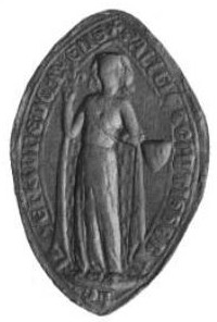 Alix de Bretagne (1243-1288)